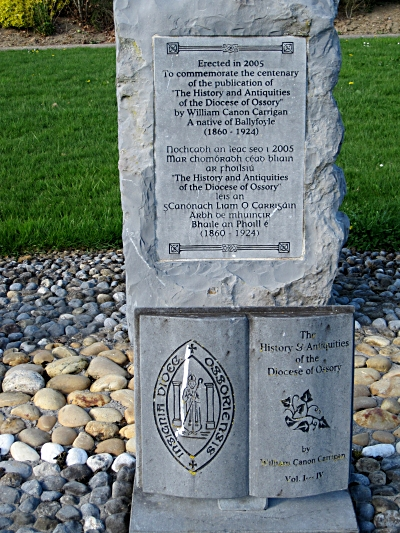 Carrigan Memorial near Ballyfoyle, Kilkenny, Ireland